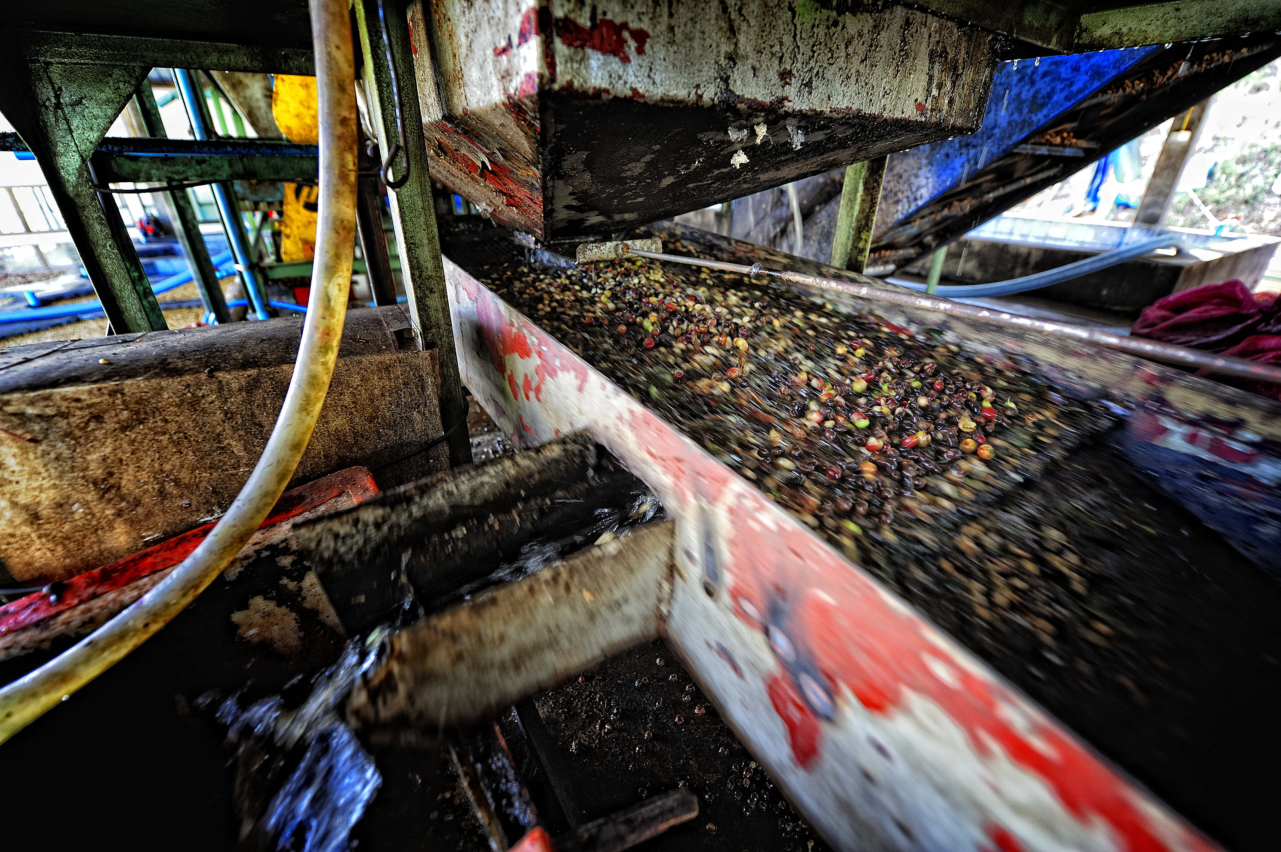 The name of “Barn Doi Chang” is named after the shape of the mountains where it is located which has the shape which looks like a mother and a calf of elephants walking toward the north (Chaing Rai Province). Doi Chang is famous for being one of the largest coffee farms in Thailand. It is a place where Waree Highland Agricultural Experimental Station is located. It is also the place for promotion of growing temperate plants in order to reduce mobile plantations or farming. It is located at over 1,000 meters above sea level and the weather is cool all year round. It is suitable for growing Arabica coffee with high productivity. There are also farms growing temperate fruits such as various nuts such as Macadamia nuts, plums, peaches, persimmon, etc.